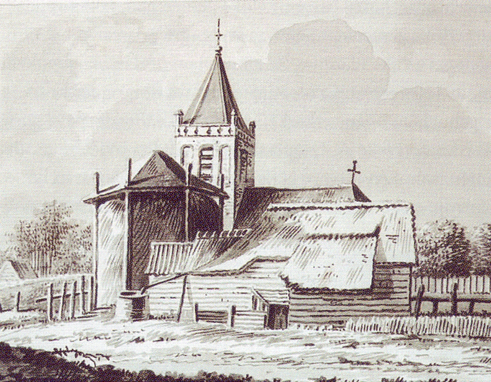 Valkenisse, Zuid-Beveland